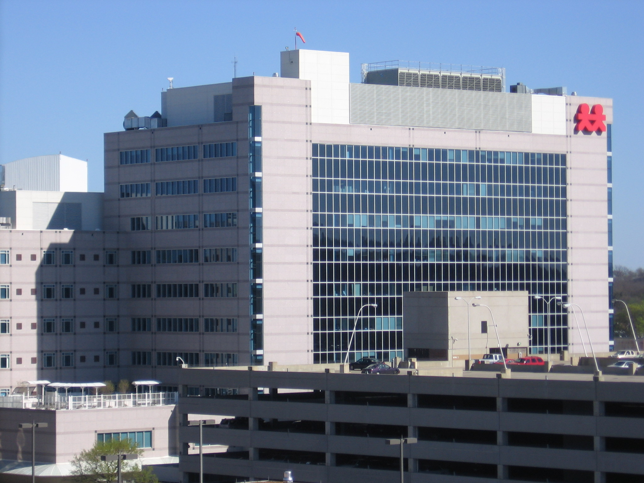 Doctors' Office Tower at Monroe Carell, Jr. Children's Hospital at Vanderbilt, Nashville, Tenn.